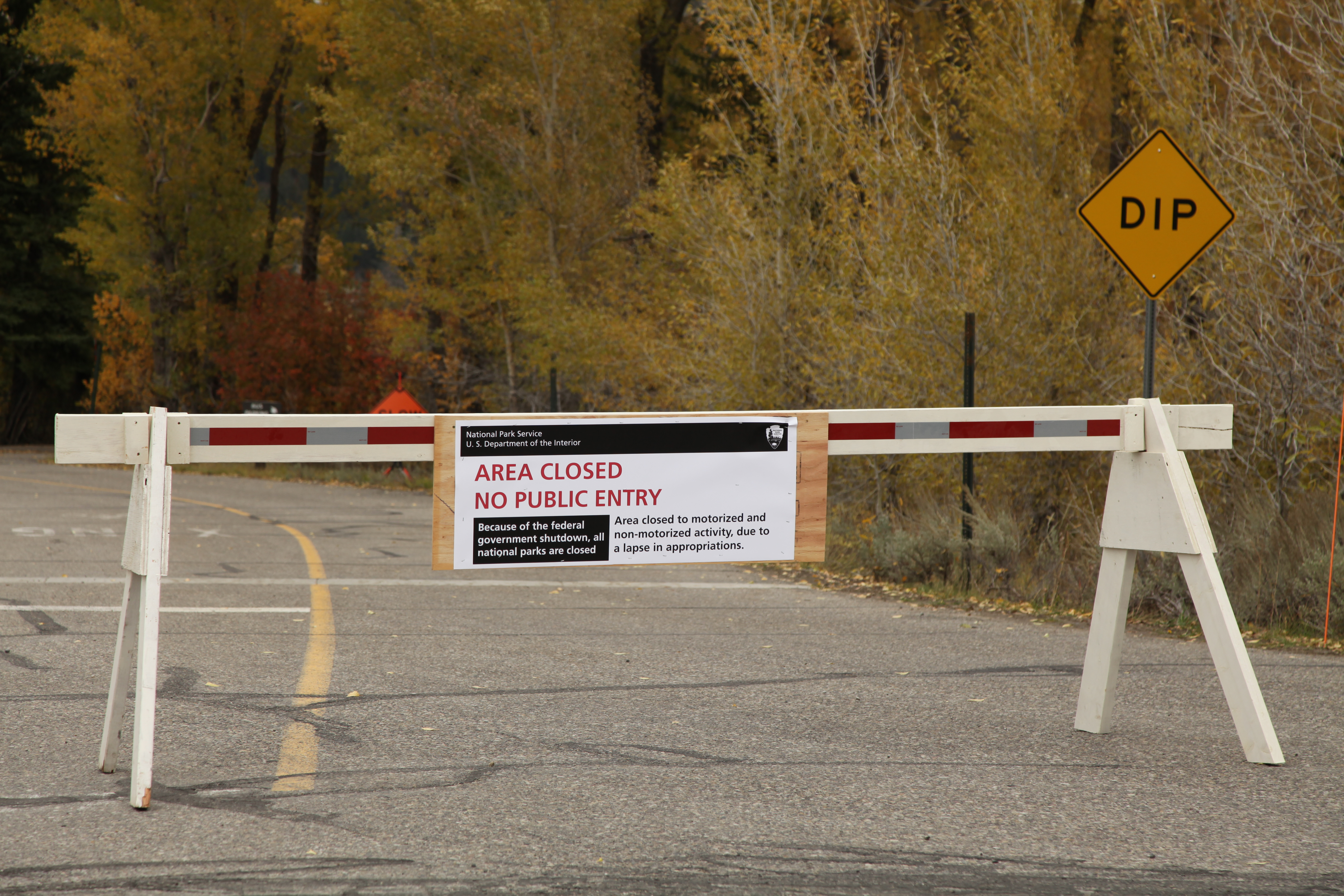 Barricade at Grand Teton National Park (closed due to government shutdown)